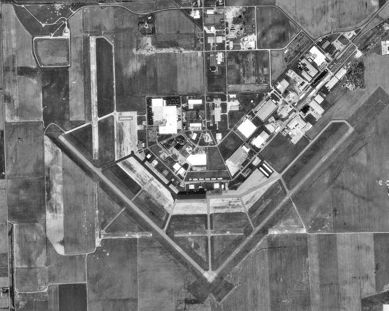 USGS digital orthophoto of Freeman Municipal Airport in Indiana, United States